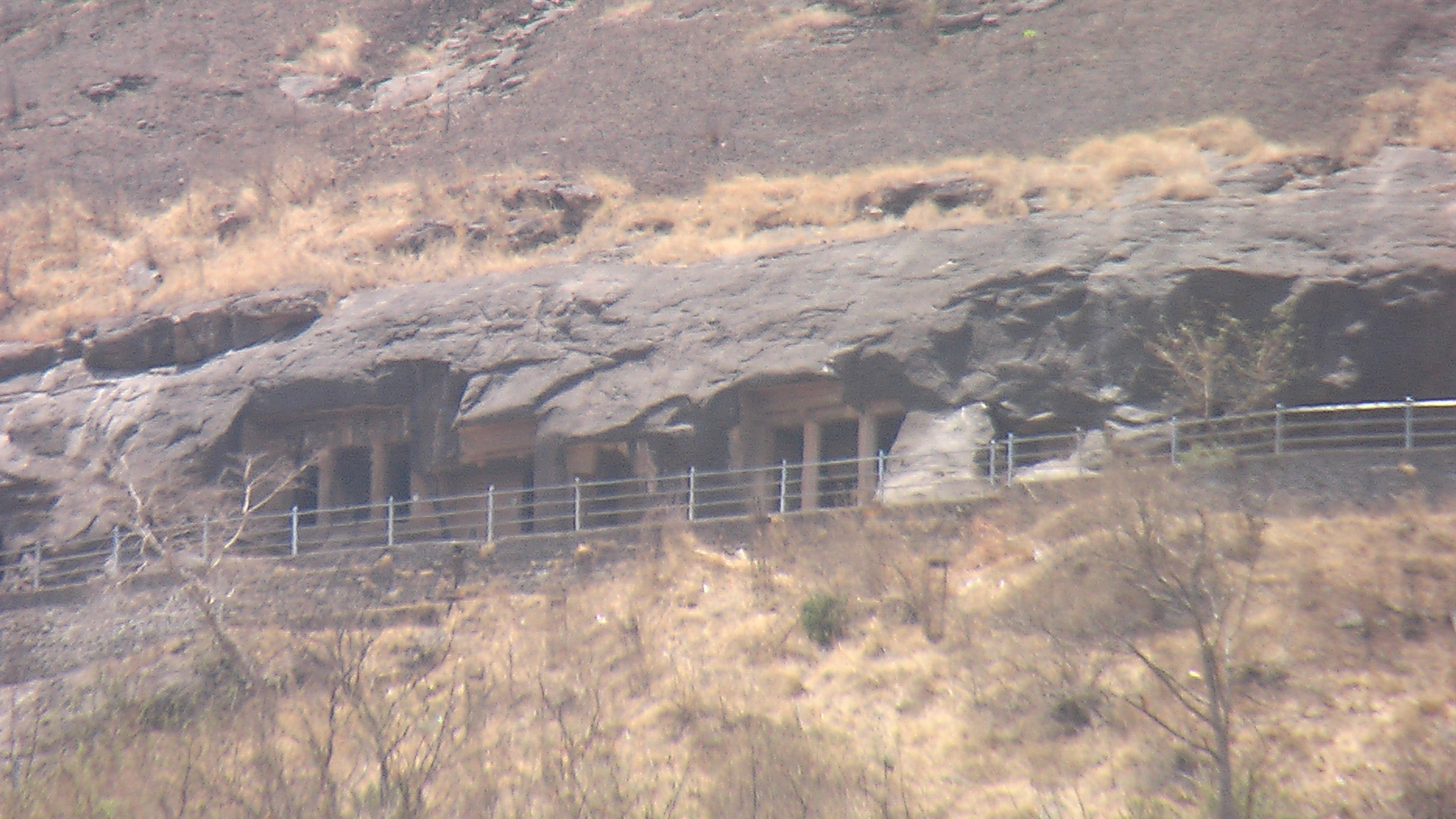 Pandev Lena Caves